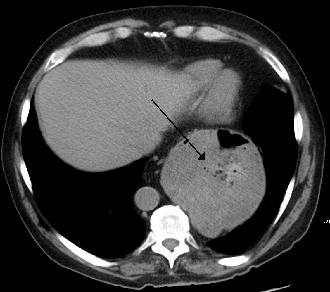 A large hiatus hernia as seen on CT